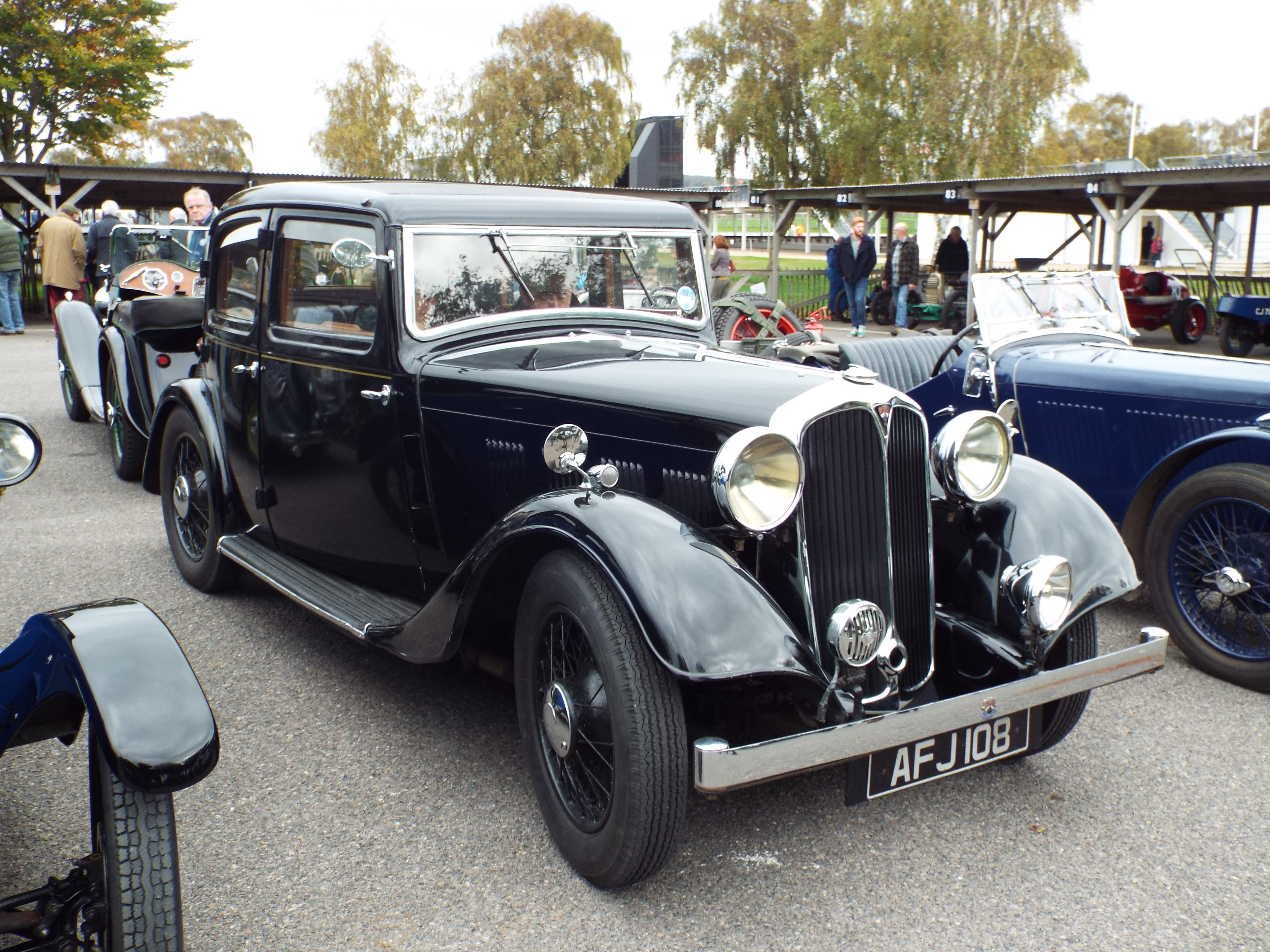 1934 Rover 12 sports saloon (DVLA) first registered 4 October 1934, 1400 cc 25 October 2014 - VSCC Autumn Sprint, Goodwood